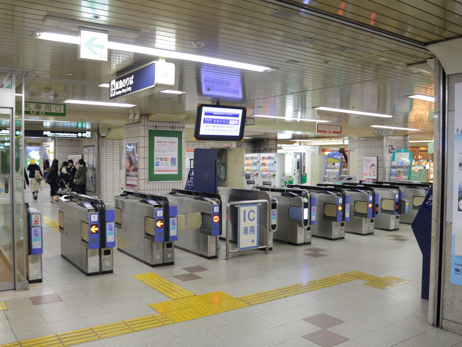 Ticket barrier from Takatsuki-shi Station.